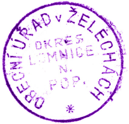 Stamp of Czech municipality Želechy